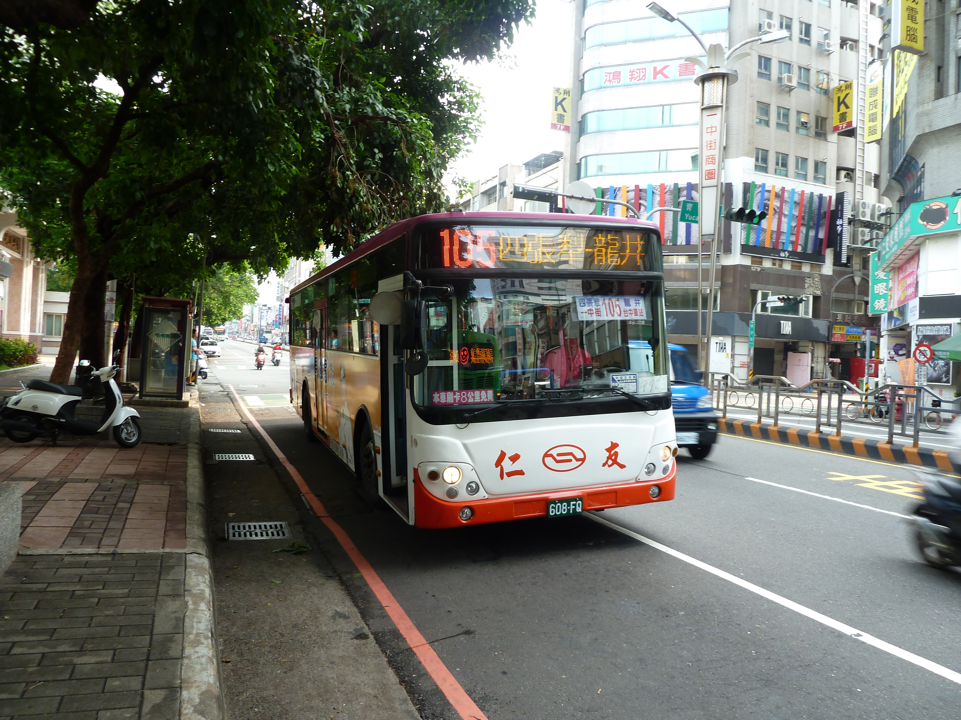 Taichung City Bus Route 105